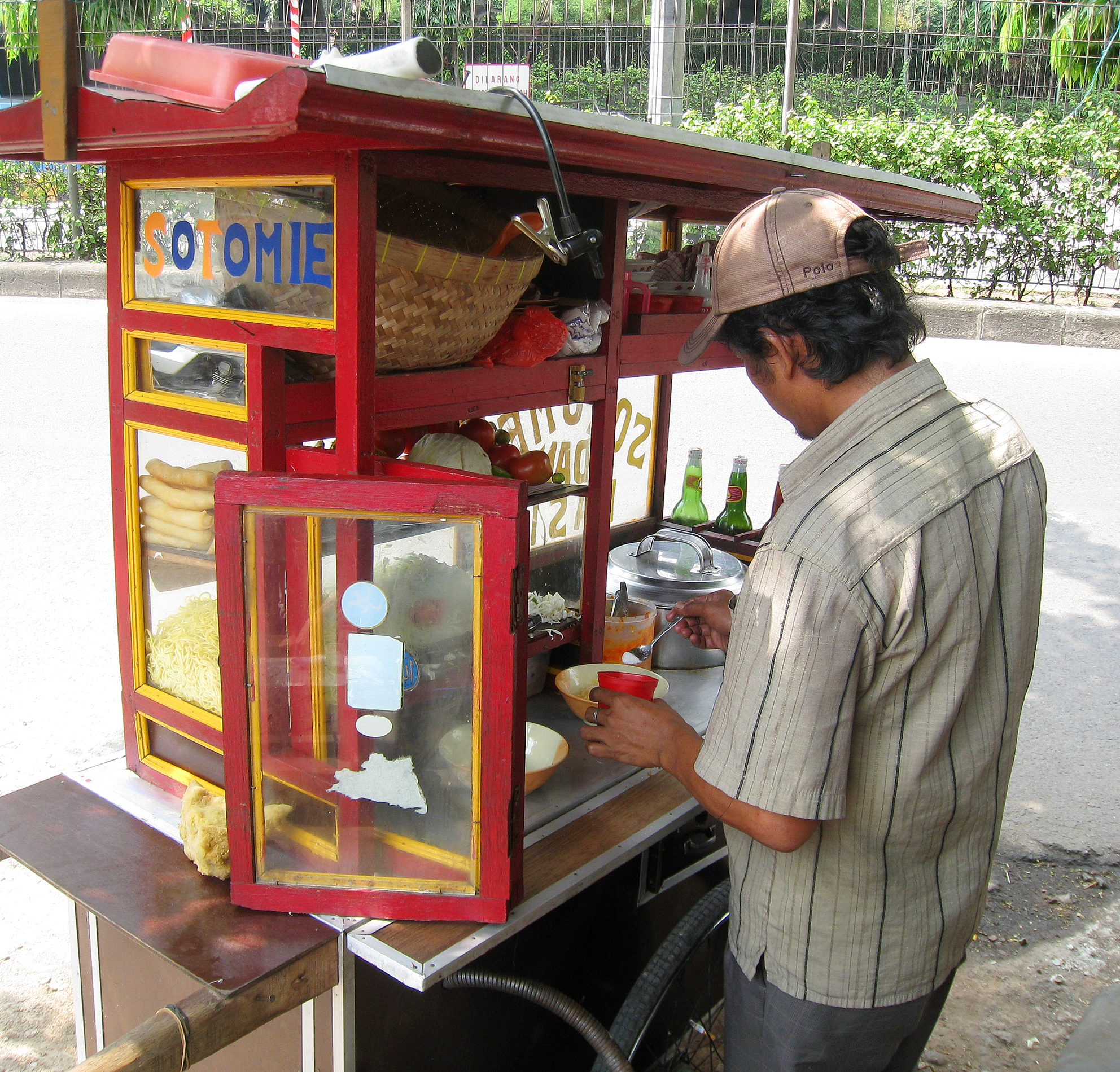 Travelling Soto Mie Bogor cart in Jakarta street preparing Soto Mie putting salt on bowl. The ingredients displayed on window, such as noodle and rice vermicelli, cabbage, tomato, cow's leg (cartilage) and tripes, and risoles spring rolls.